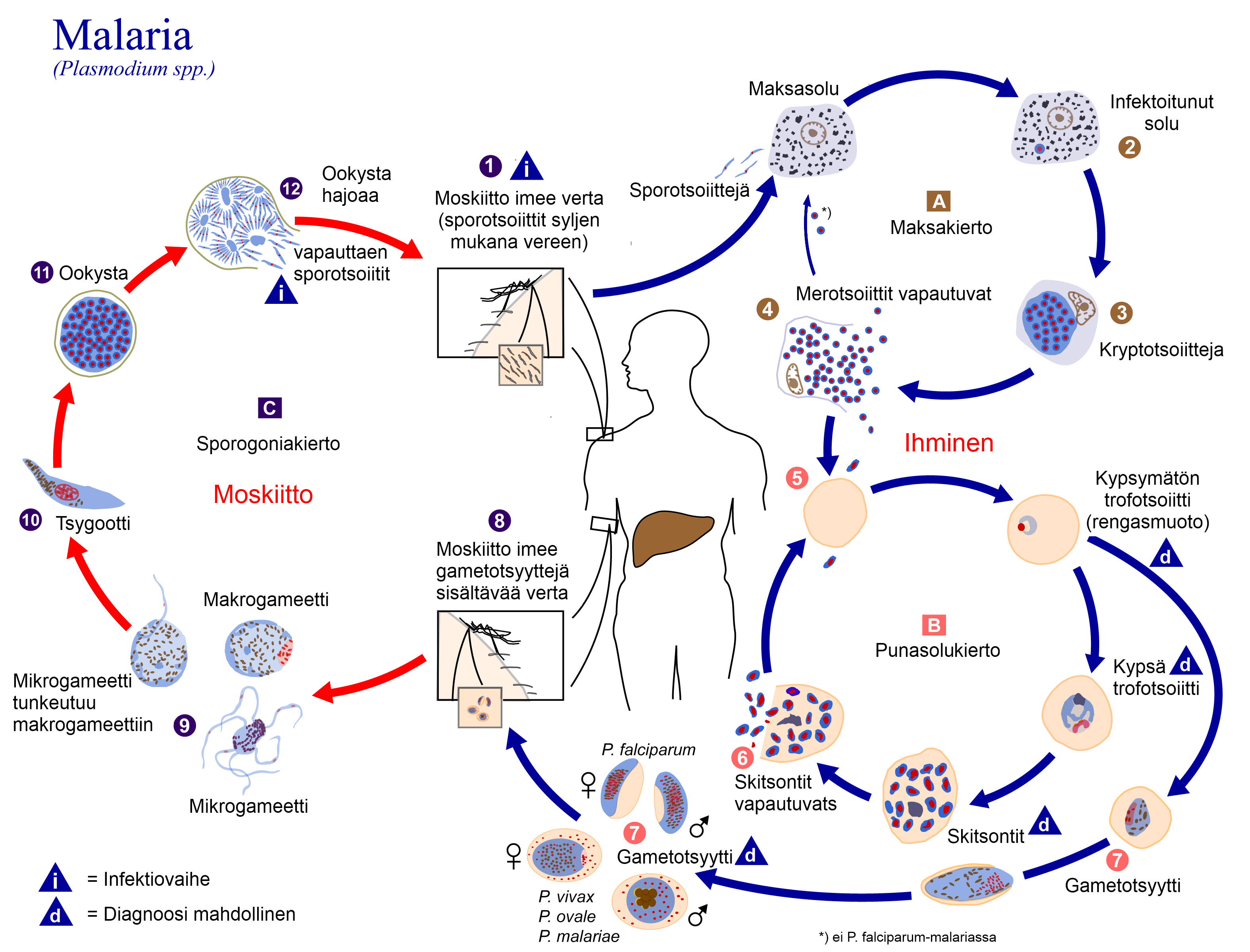 This is an illustration of the life cycle of the parasites of the genus Plasmodium that are causal agents of Malaria. For a complete description of the life cycle of parasites which cause Malaria, select the link below the image or paste the following address in your address bar